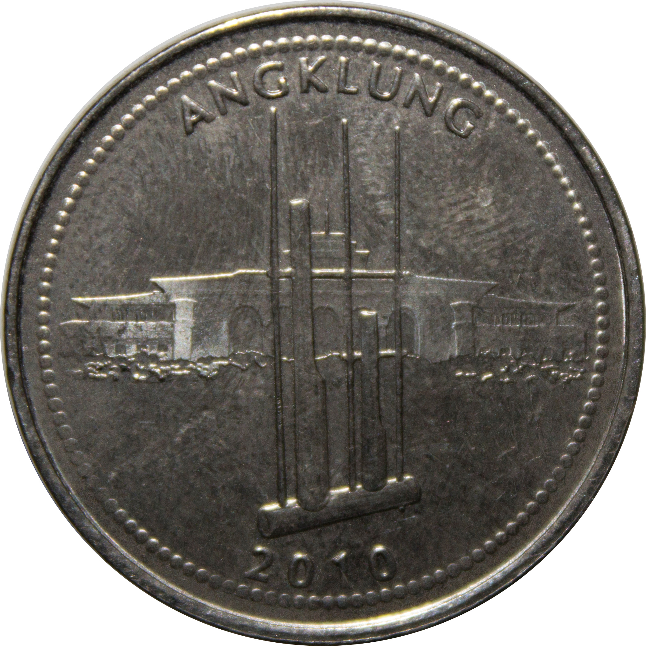 1000 rupiah coin reverse